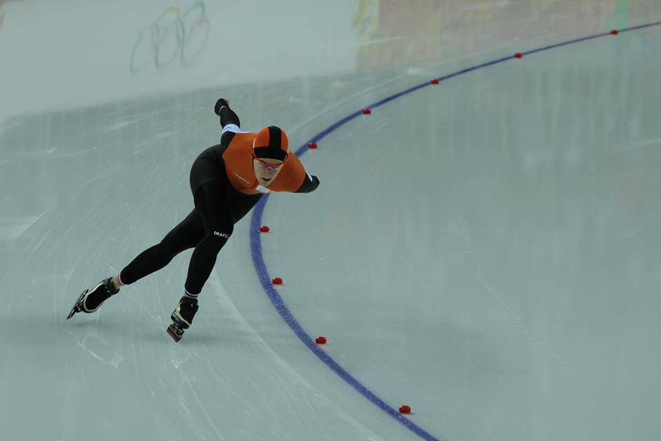 Women's 3000m, 2014 Winter Olympics, Ireen Wust Gold medalist